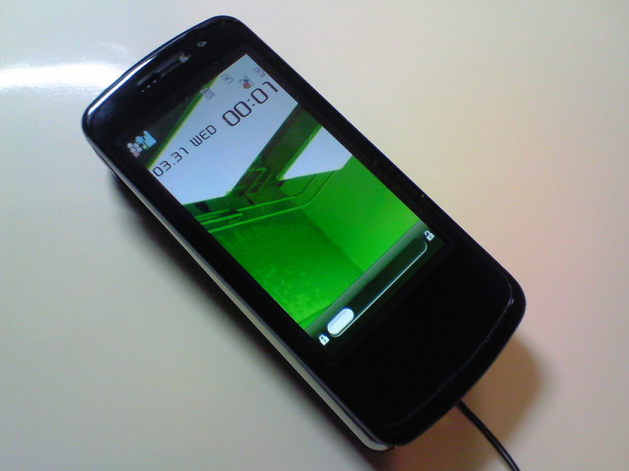 NTTDocomo CellPhone FOMA N-06A TouchStyle